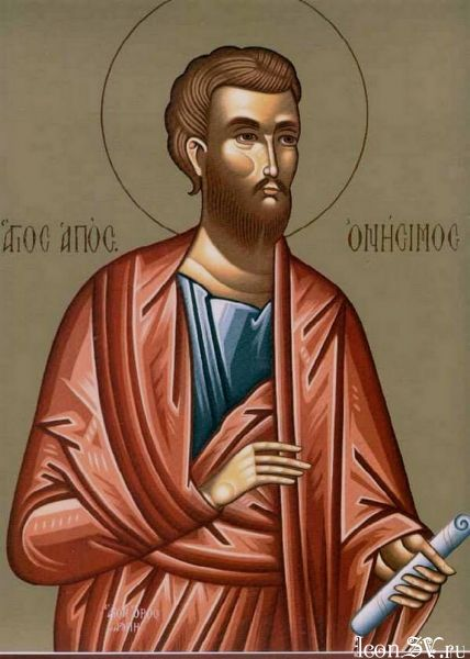 Icon of Onesimus